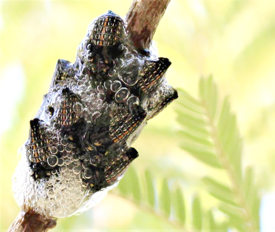 Ptyelus grossus nymphs - Peach tree in Honeydew, Johannesburg, South Africa